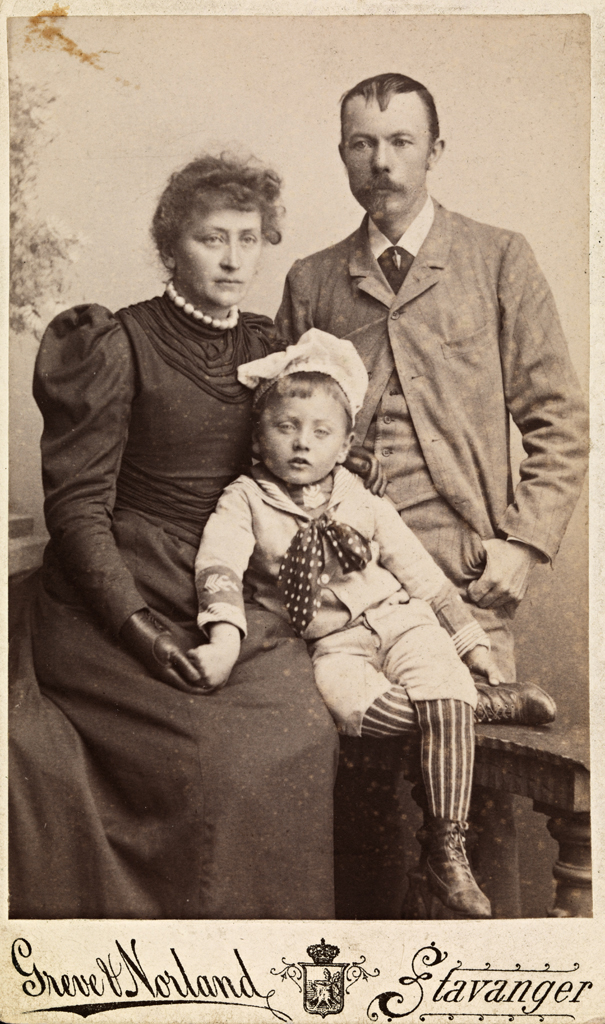 Motiv / Motif: Visittkort / Carte de visite. Fotograf / Photographer: Greve & Norland (Stavanger) Eier / Owner Institution: Nasjonalbiblioteket / National Library of Norway Lenke / Link: Bildesignatur / Image Number: blds_03749